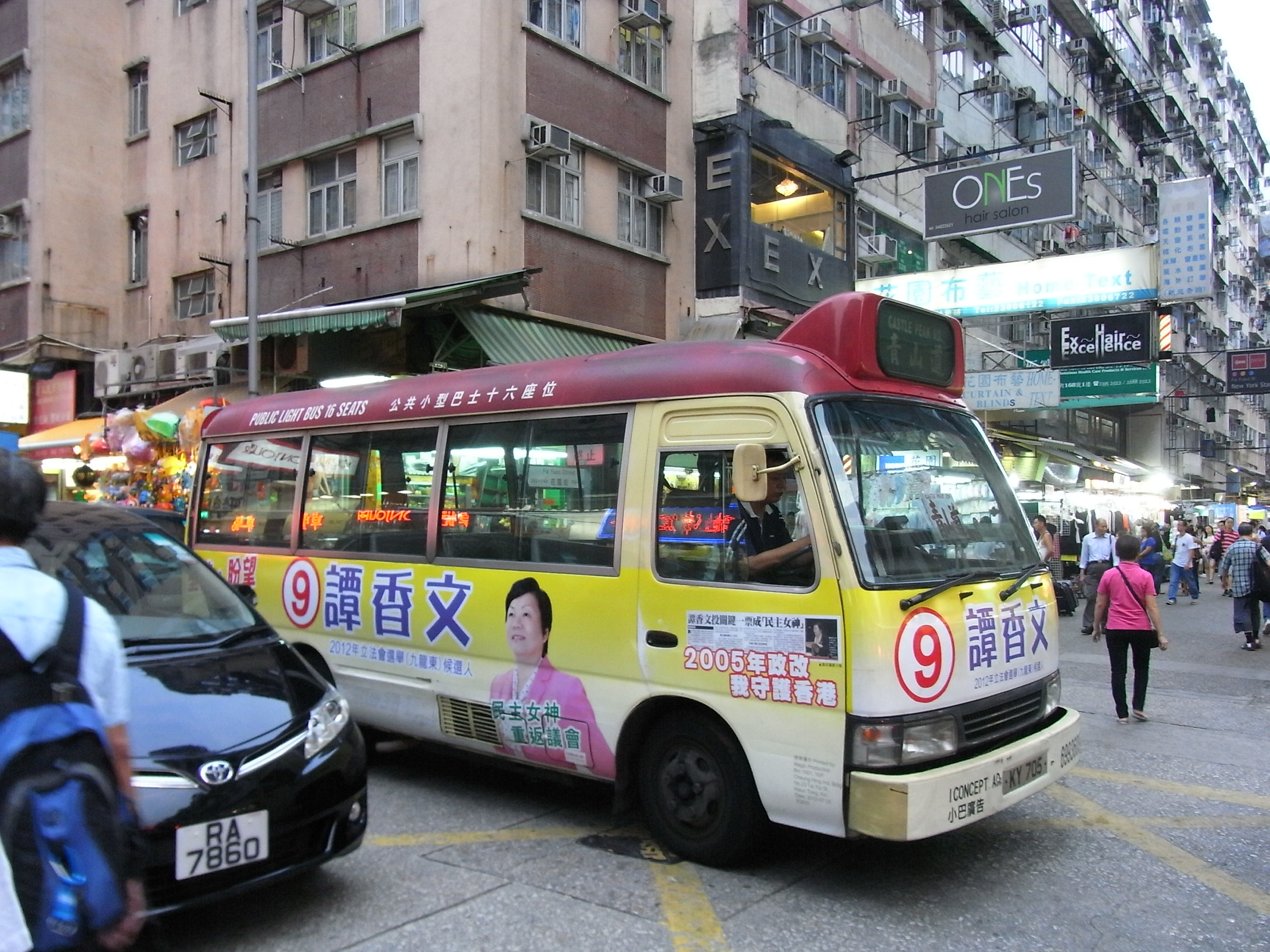 Bute Street, Mongkok, Hong Kong